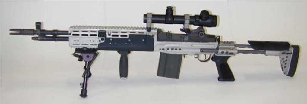 Mk14 mod 0